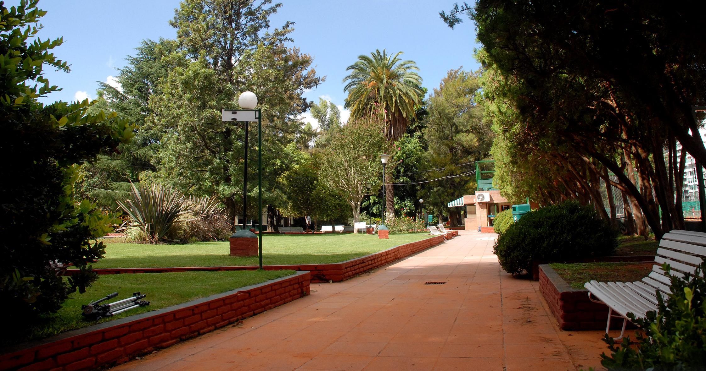 h2